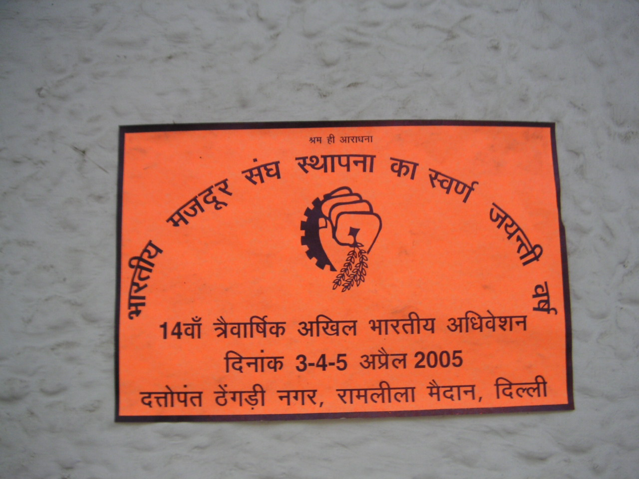 Bharatiya Mazdoor Sangh sticker. Delhi. Photo: Soman